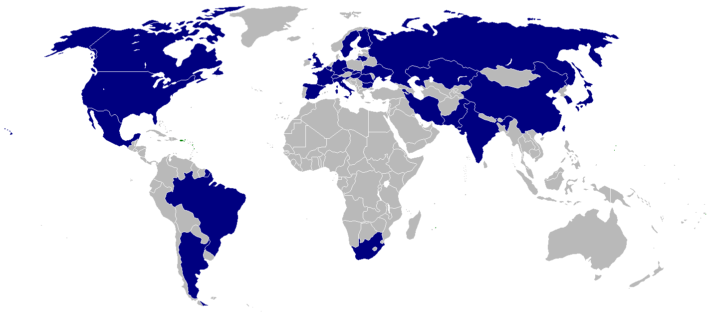 ==World Association of Nuclear Operators